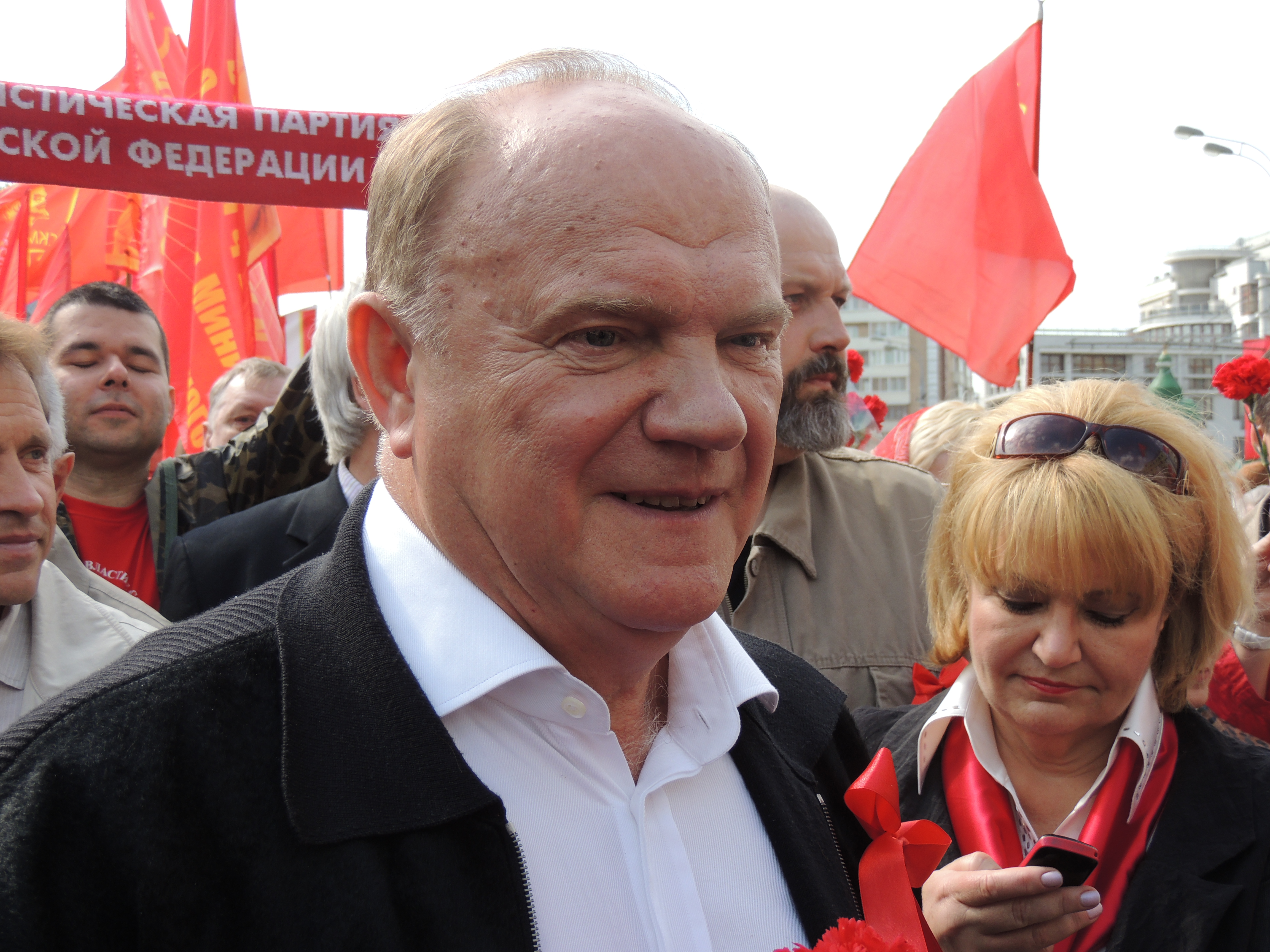 Lider of the Communist party of the Russian Federation Gennady Zyuganov at Moscow rally 1 May 2012